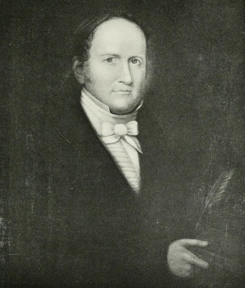 Asahel Stearns (Massachusetts Congressman)